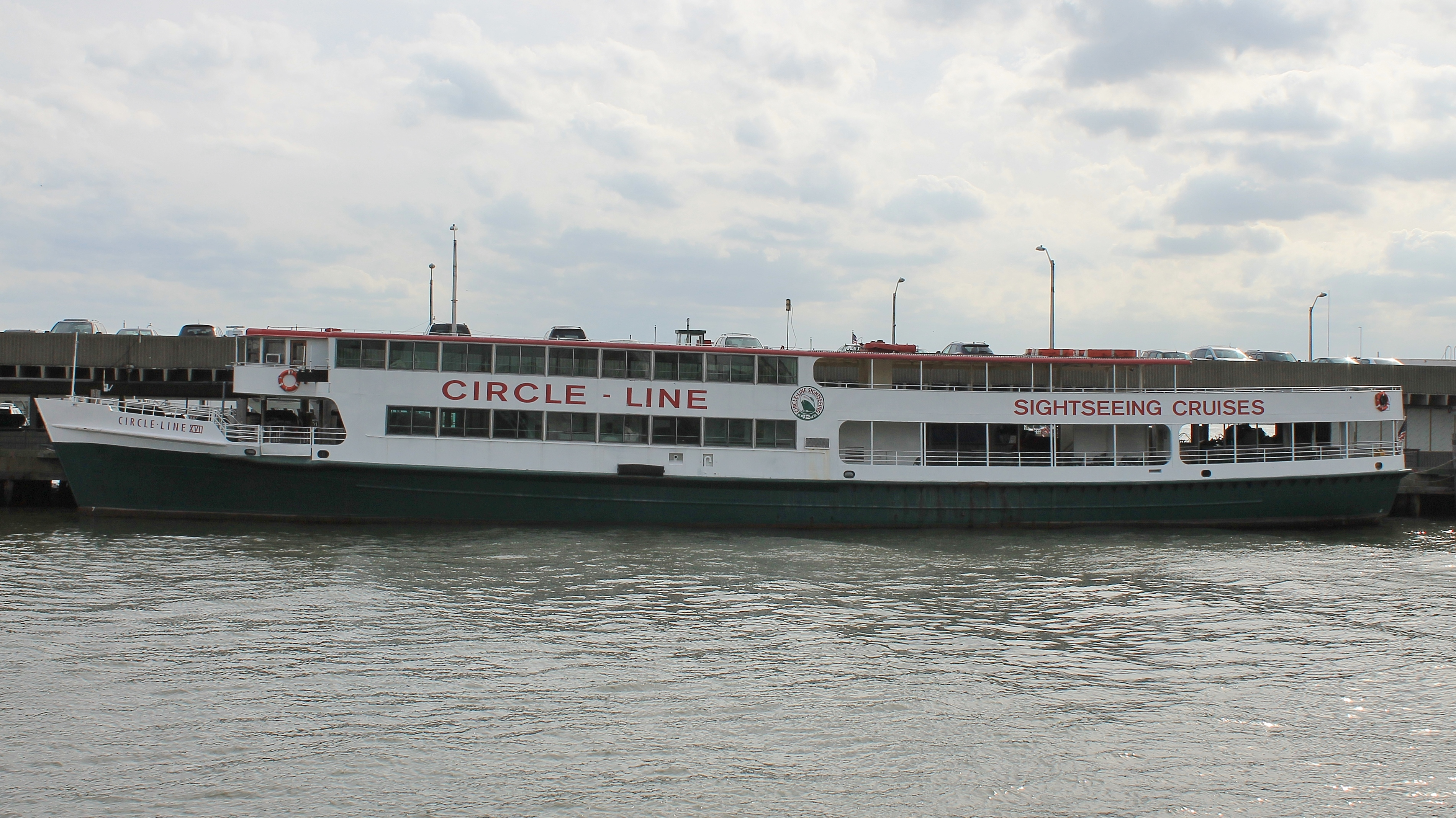 Circle Line XVII docked at Pier 83 in Manhattan.